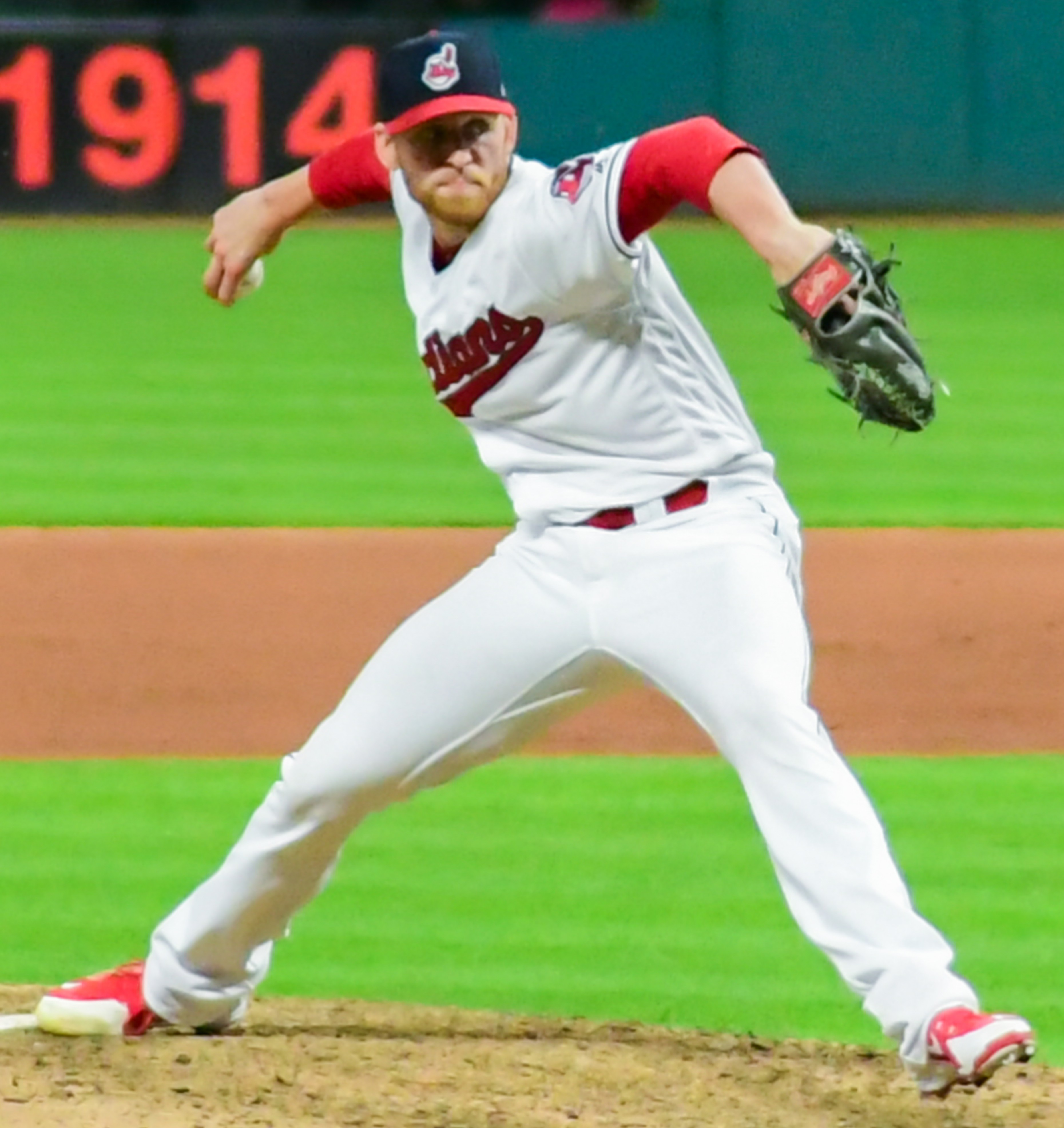 Neil Ramirez